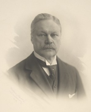 The Founder and CEO of Tornator Oy. The holder of the photo is the National Board of Antiquities, Finland